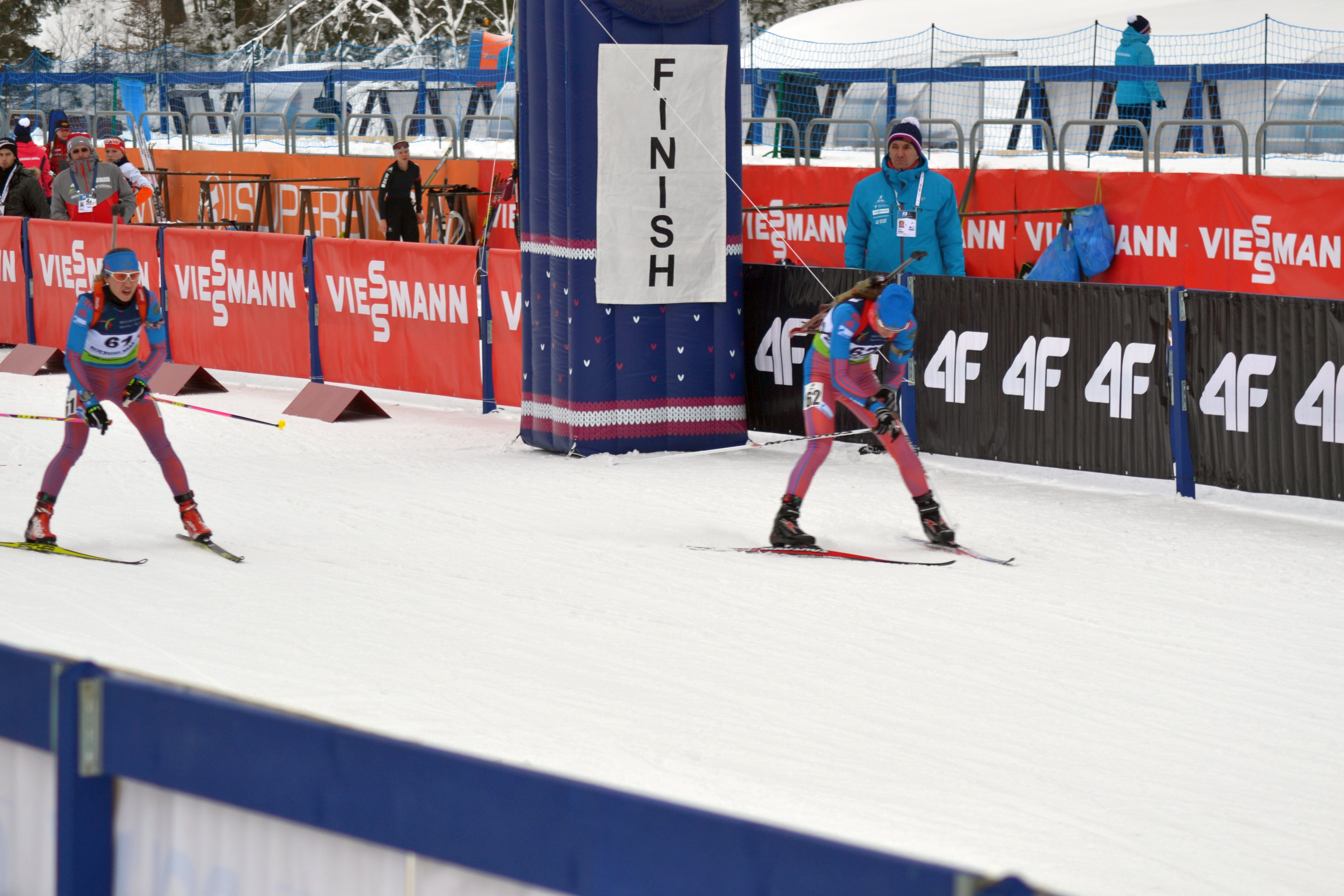 Open European Championships Biathlon 2017, Individual Women's race, held on January 25th.